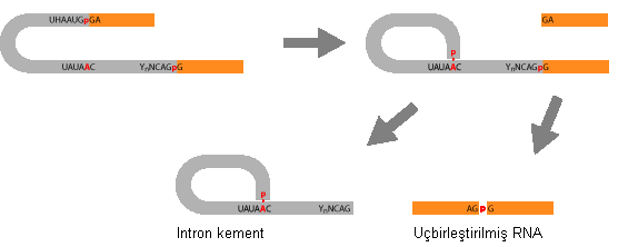 Mechanism of exon splicing, with Turkish text.